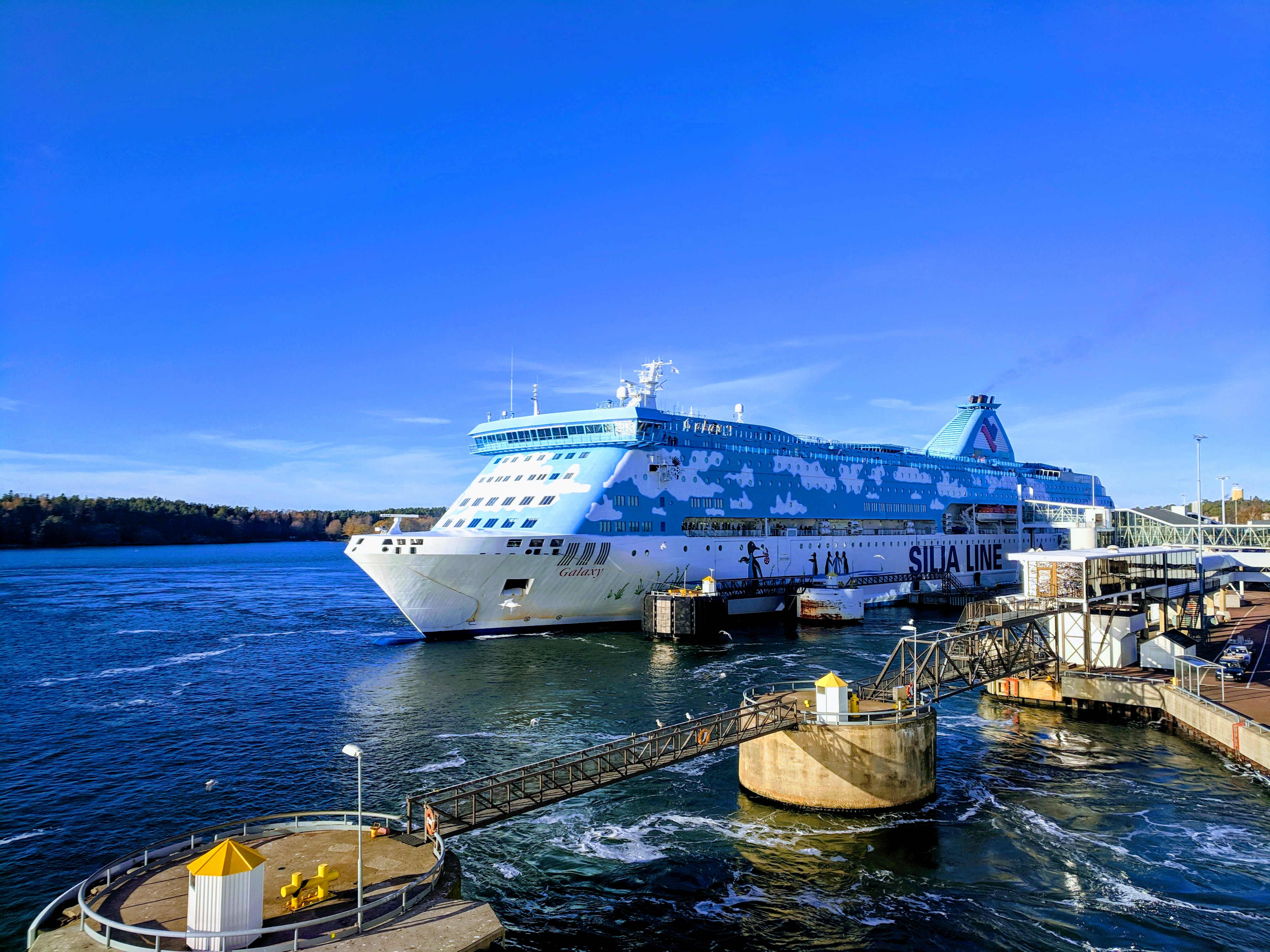 M/S Galaxy in Mariehamn Port